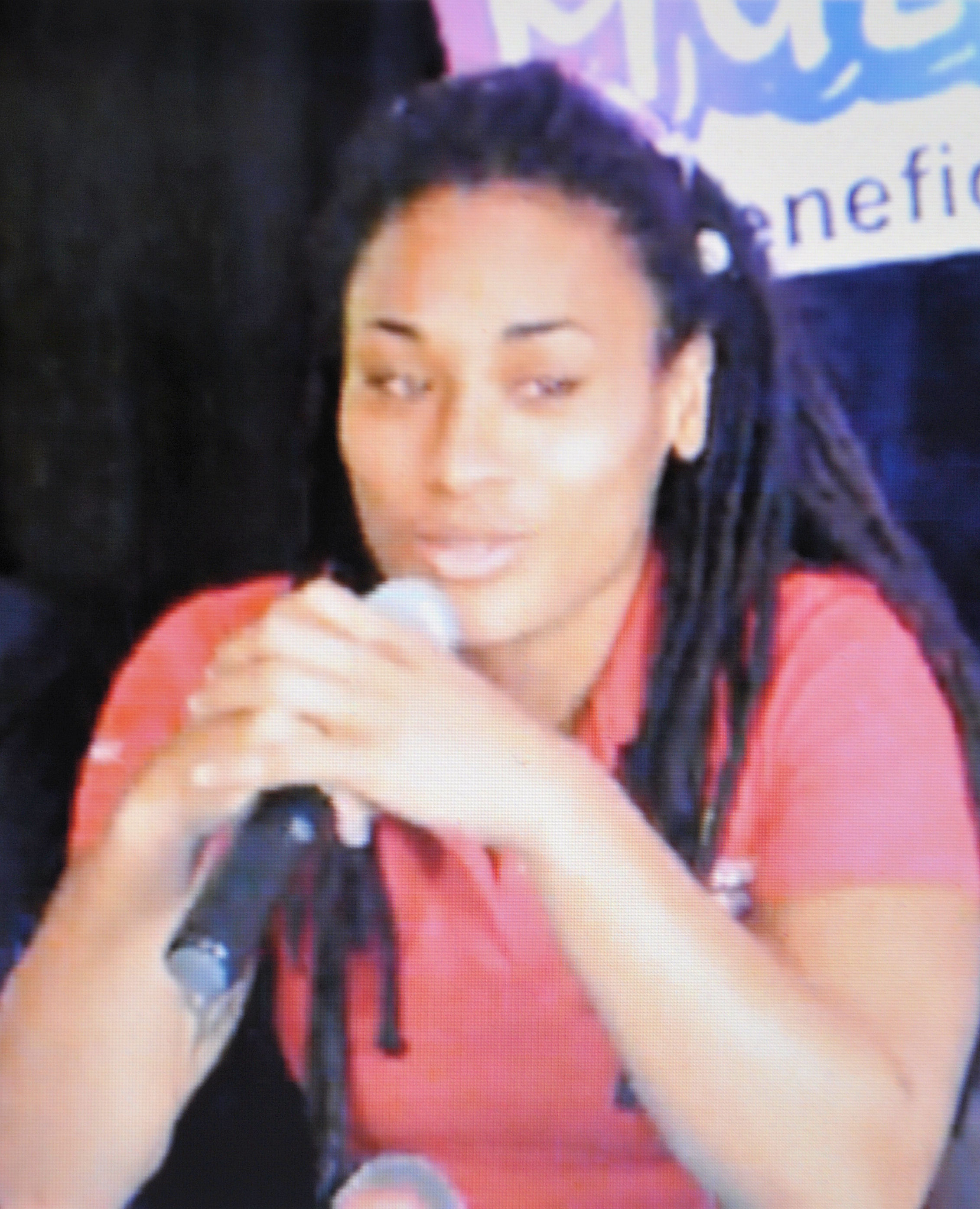 Hanna Gabriel (1983), Costarrican boxer